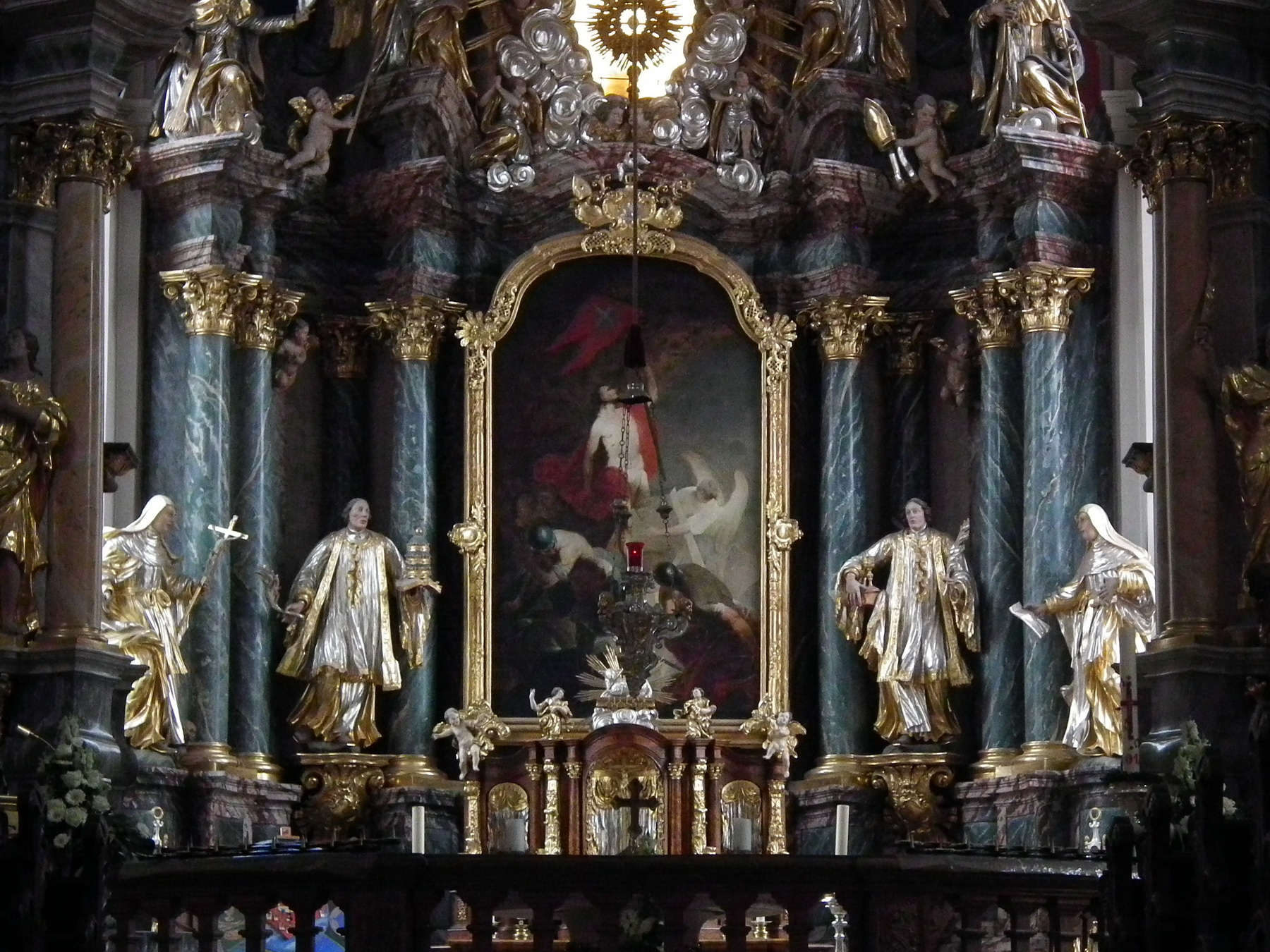 Church of the Holy Cross Native namePfarrkirche Heilig KreuzLocationGerlachsheim, Baden-Württemberg, GermanyCoordinates49° 34′ 47.32″ N, 9° 43′ 13.08″ E